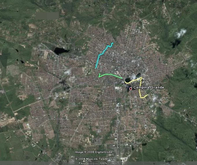 Imagem de Satélite de Campina Grande